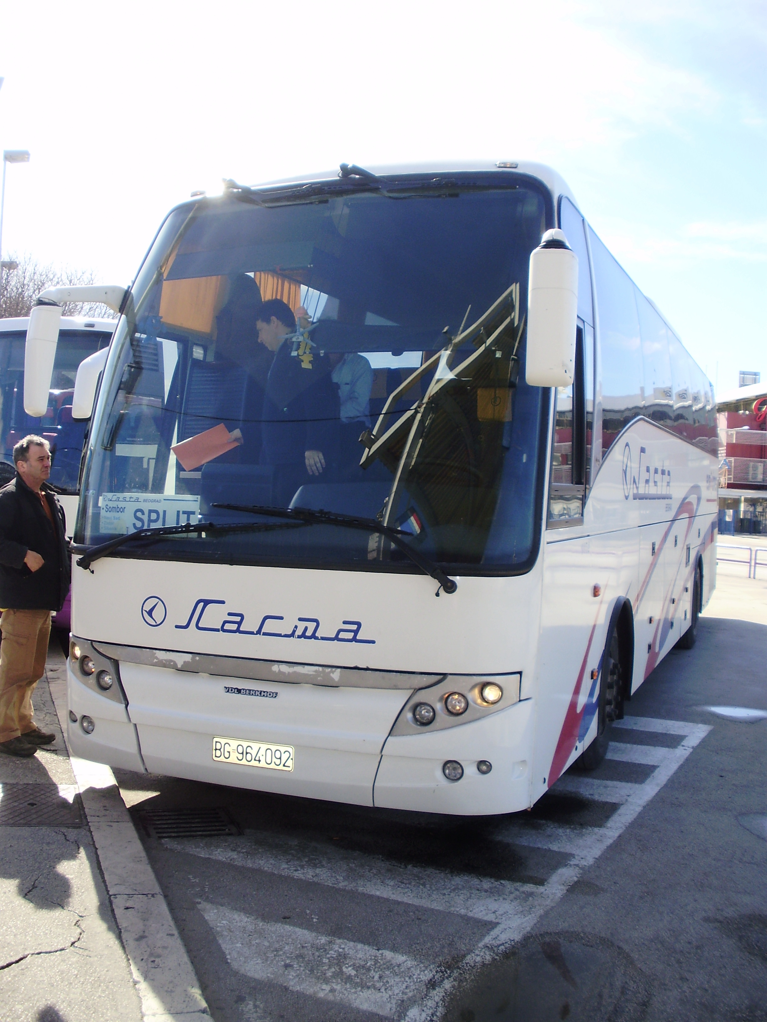 A VDL Berkhof bus on the Sombor-Split route operated by Lasta Beograd.